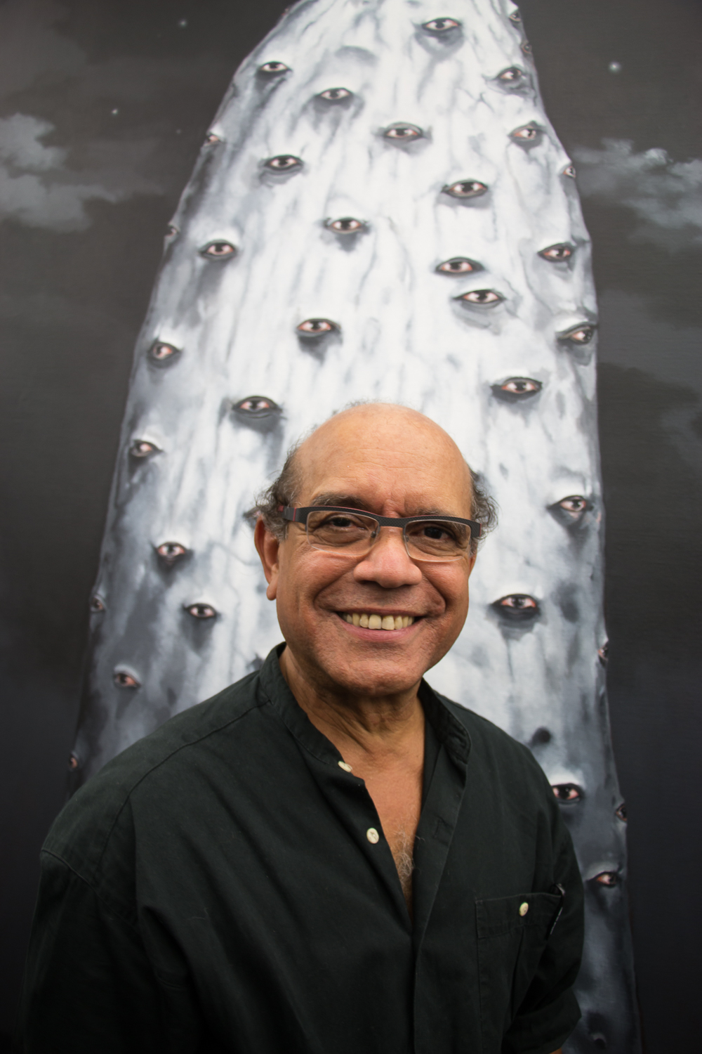 "The Watchtower" and José García Cordero